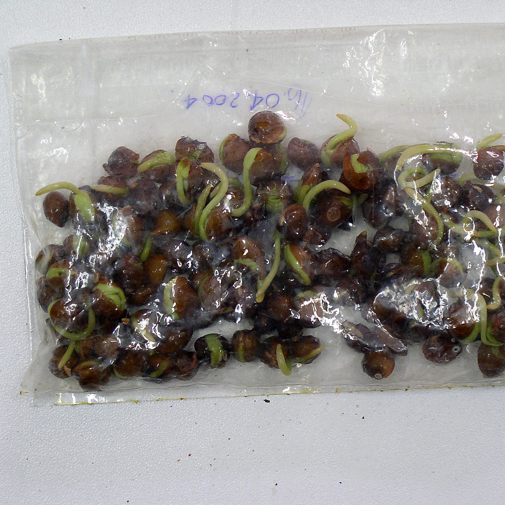 Naked stratification of Acer pseudoplatanus seeds